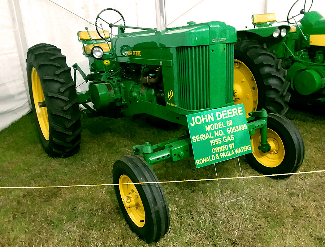 John Deere tractor Model 60, made in 1955, USA